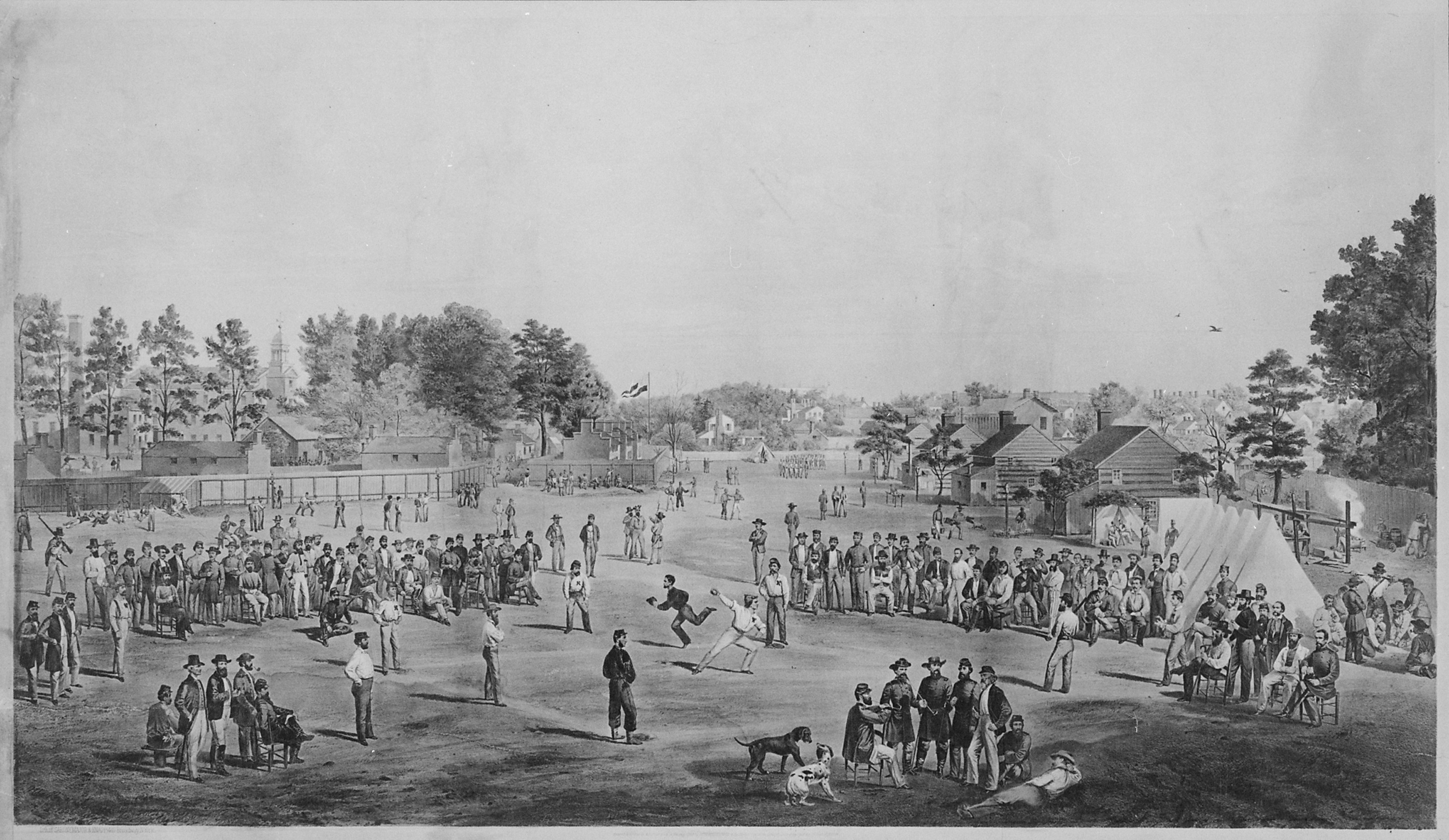 General notes: Lithograph of a drawing by Maj. Otto Boetticher